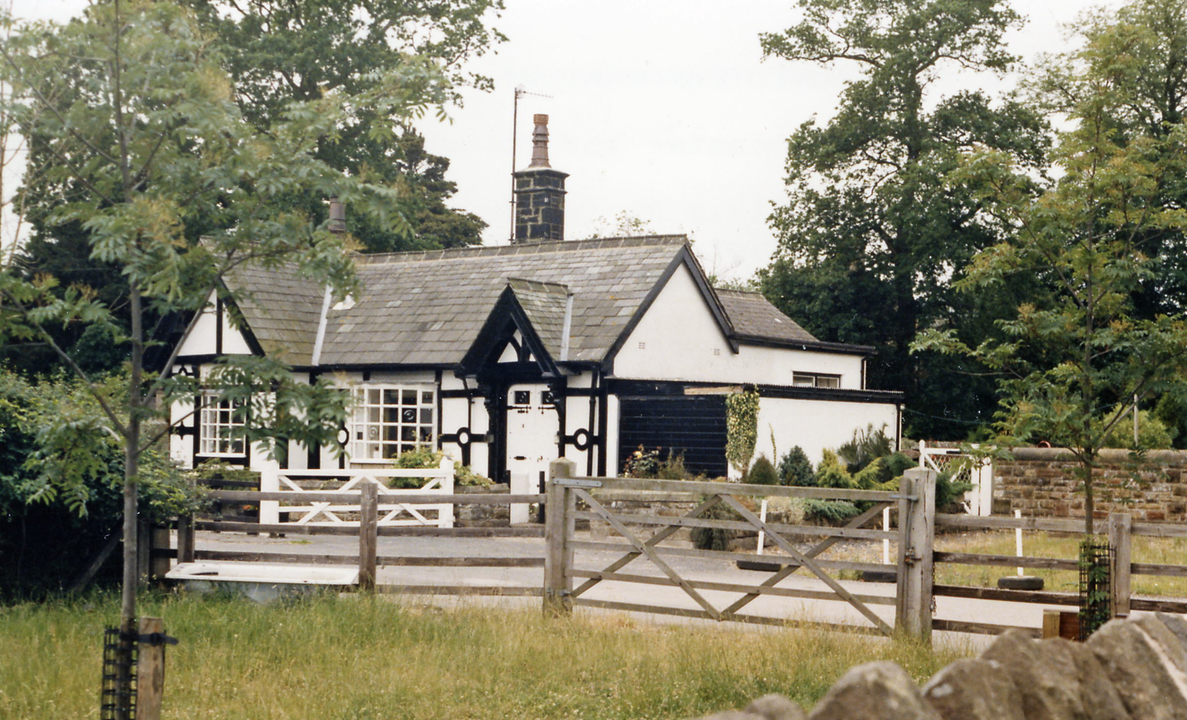 Former station at Caton, 1986. View NW, towards Lancaster and Morecambe left, Wennington, Clapham and Hellifield right: ex-Midland Hellifield - Settle Junction - Clapham - Morecambe/Carnforth secondary main line. The station and the line west of Wennington were closed 3/1/66, the Carnforth line remaining open. The architecture of the station was already unusual and had been enhanced by the new owner.